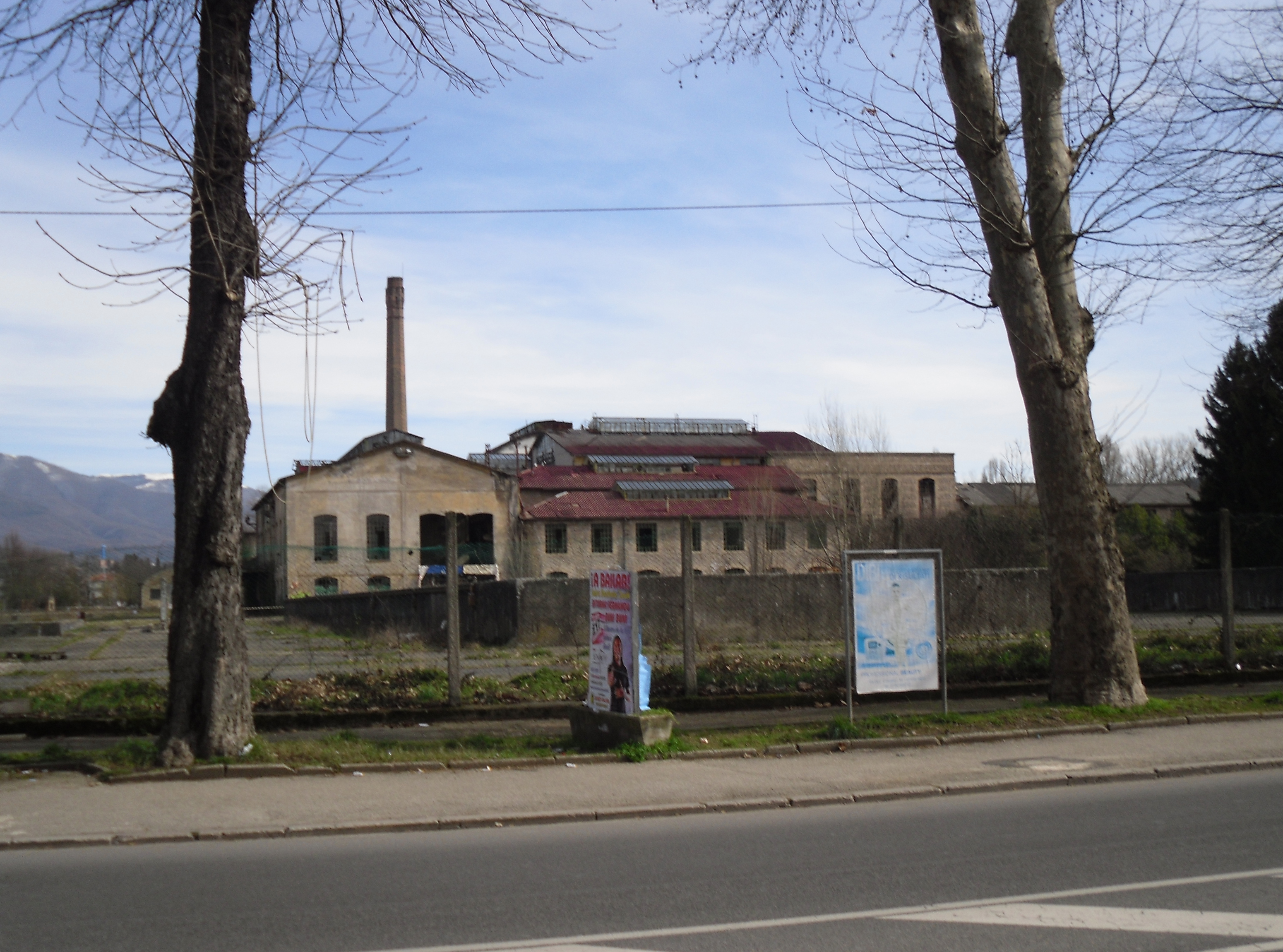 The former sugar refinery of Rieti (Italy), builded in 1873 and closed in 1973, as seen from Maraini street